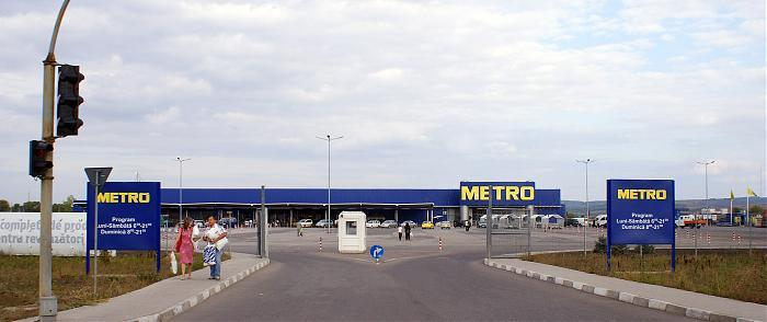 Metro Balti